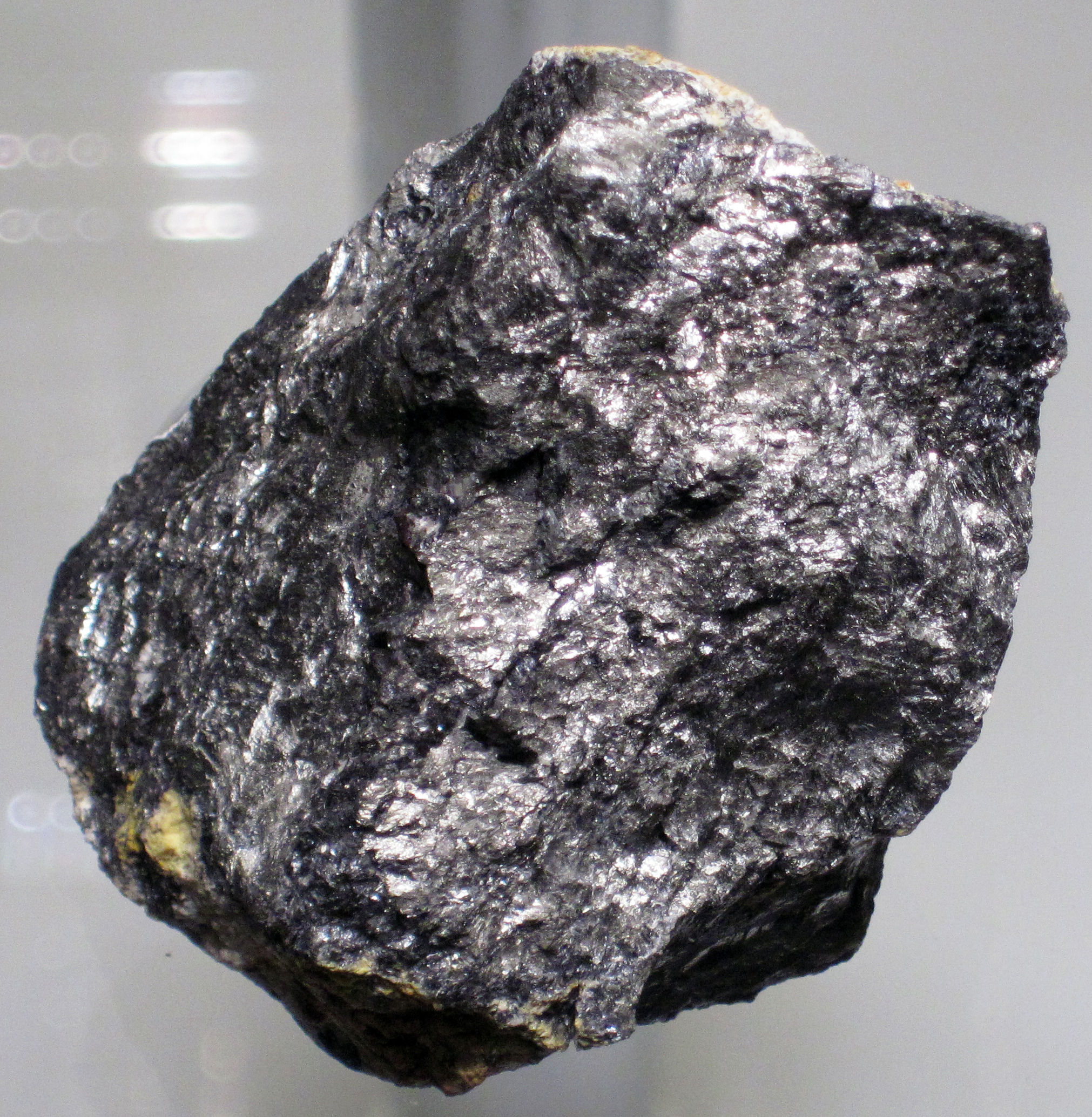 Antimony from Mexico. (Carnegie Museum of Natural History, Pittsburgh, Pennsylvania, USA) A mineral is a naturally-occurring, solid, inorganic, crystalline substrance having a fairly definite chemical composition and having fairly definite physical properties. At its simplest, a mineral is a naturally-occurring solid chemical. Currently, there are over 4900 named and described minerals - about 200 of them are common and about 20 of them are very common. Mineral classification is based on anion chemistry. Major categories of minerals are: elements, sulfides, oxides, halides, carbonates, sulfates, phosphates, and silicates. Elements are fundamental substances of matter - matter that is composed of the same types of atoms. At present, 118 elements are known (four of them are still unnamed). Of these, 98 occur naturally on Earth (hydrogen to californium). Most of these occur in rocks & minerals, although some occur in very small, trace amounts. Only some elements occur in their native elemental state as minerals. To find a native element in nature, it must be relatively non-reactive and there must be some concentration process. Metallic, semimetallic (metalloid), and nonmetallic elements are known in their native state as minerals. The semimetal/metalloid antimony (Sb) is not common in its native state. It has a metallic luster, silvery-gray color, is somewhat soft (H=3 to 3.5), and is moderately heavy for its size. Other semimetals that occur as native elements are arsenic (As) and bismuth (Bi). The semimetals/metalloids resemble metals in luster, but they break along fractures - they’re brittle. True metals are malleable.